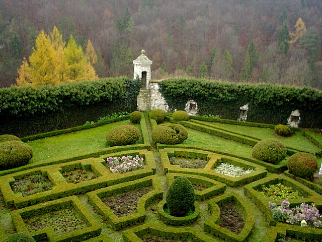 Pieskowa Skala - castle garden